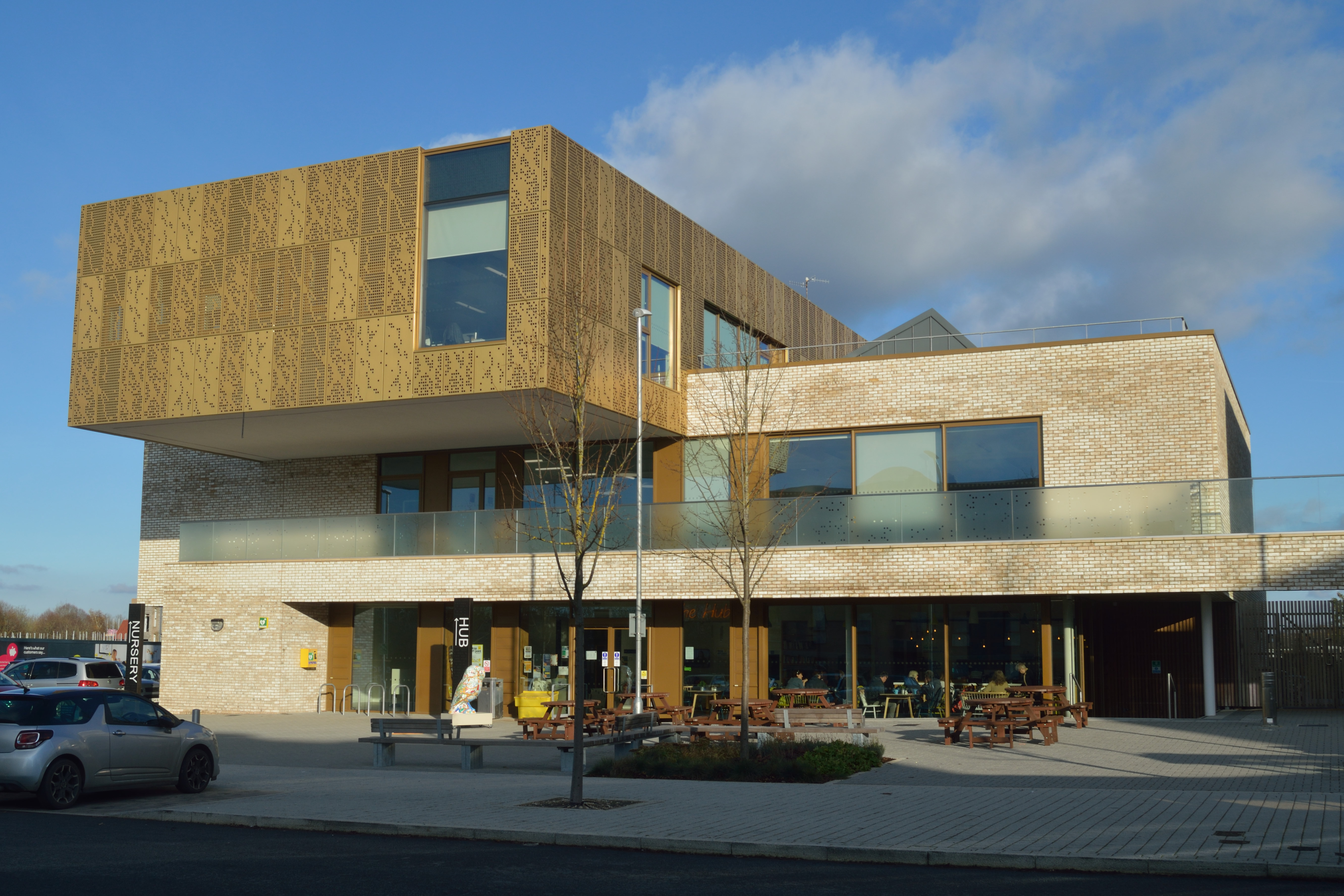 The Hub community centre on Curo's new Mulberry Park 700 home development on the former Fox Hill MoD office site. The community centre and adjacent Mulberry Park Educate Together Primary School cost £10 million to build, and won the South West Community Benefit category at the Royal Institute of Chartered Surveyors (RICS) Awards 2019.[1][2]